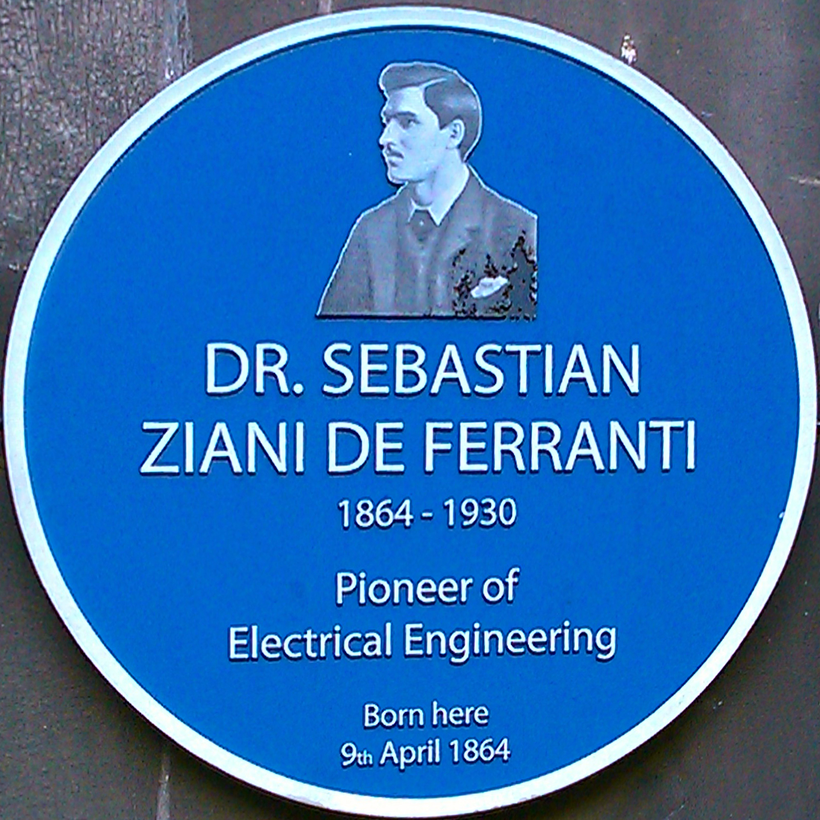 Sebastian Ziani de Ferranti, Blue Plaque, 130 Bold Street, Liverpool, England, United Kingdom. As of 19th November 2019 the plaque has been removed during refurbishment but I was told it will be replaced.